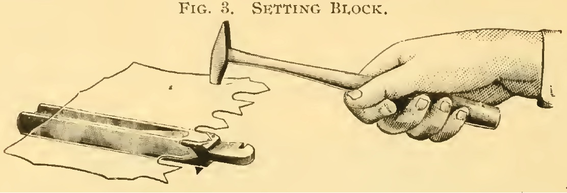 Illustration from 1902 catalog.